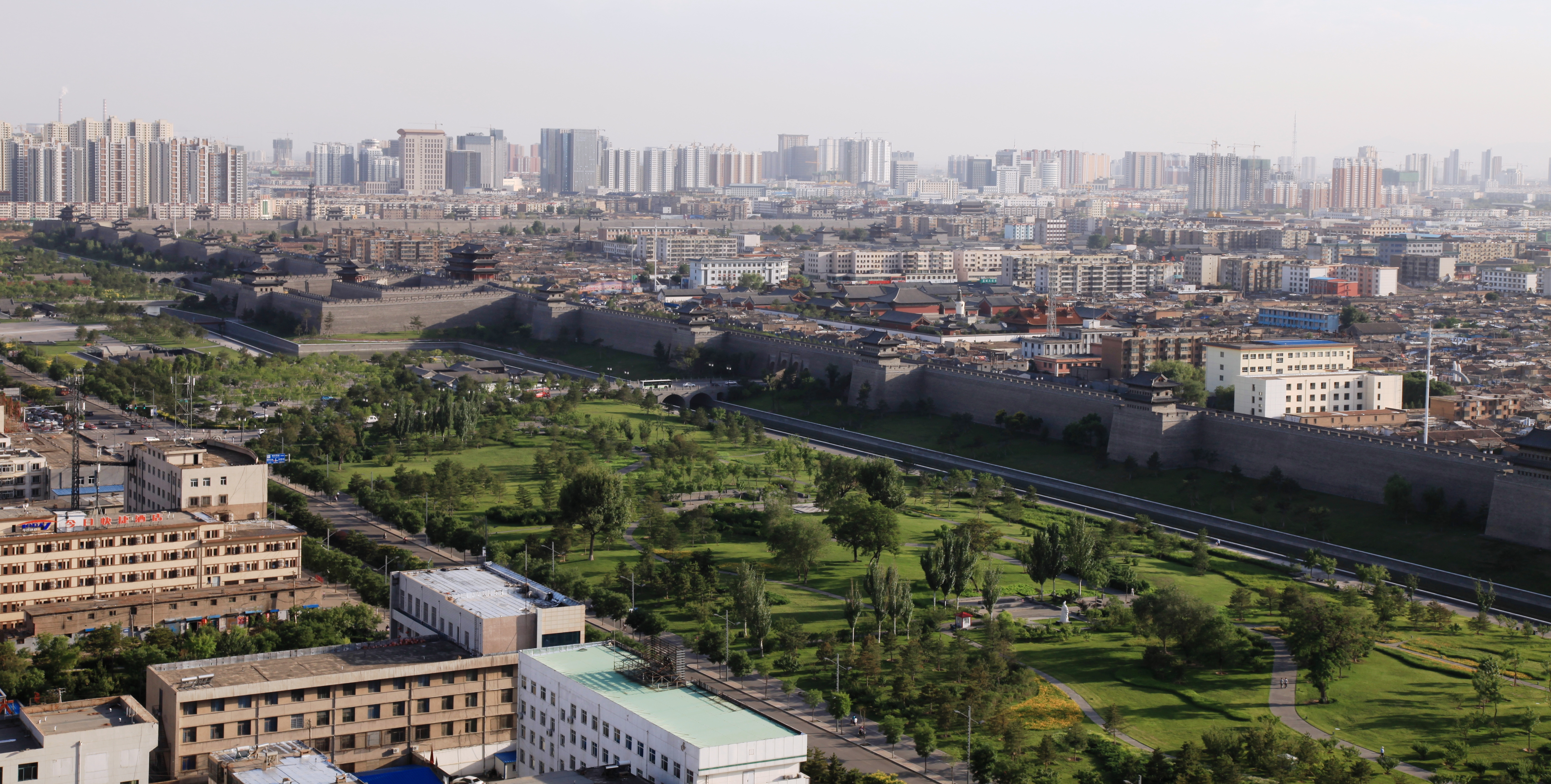 City view. Datong, Shanxi.